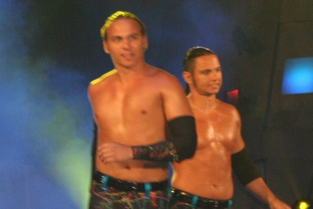 Professional wrestling tag team Generation Me (Jeremy Buck, left, and Max Buck, right) at the TNA Impact! television tapings on July 26, 2010.